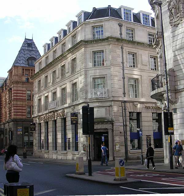 Beckett's Bank - Park Row This has now been converted into a Wetherspoon's Bar & Restaurant.